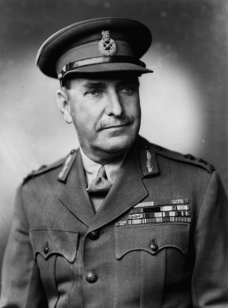 Lieutenant General Sir John Dudley Lavarack, Governor of Queensland from 1 October 1946 until 4 December 1957.